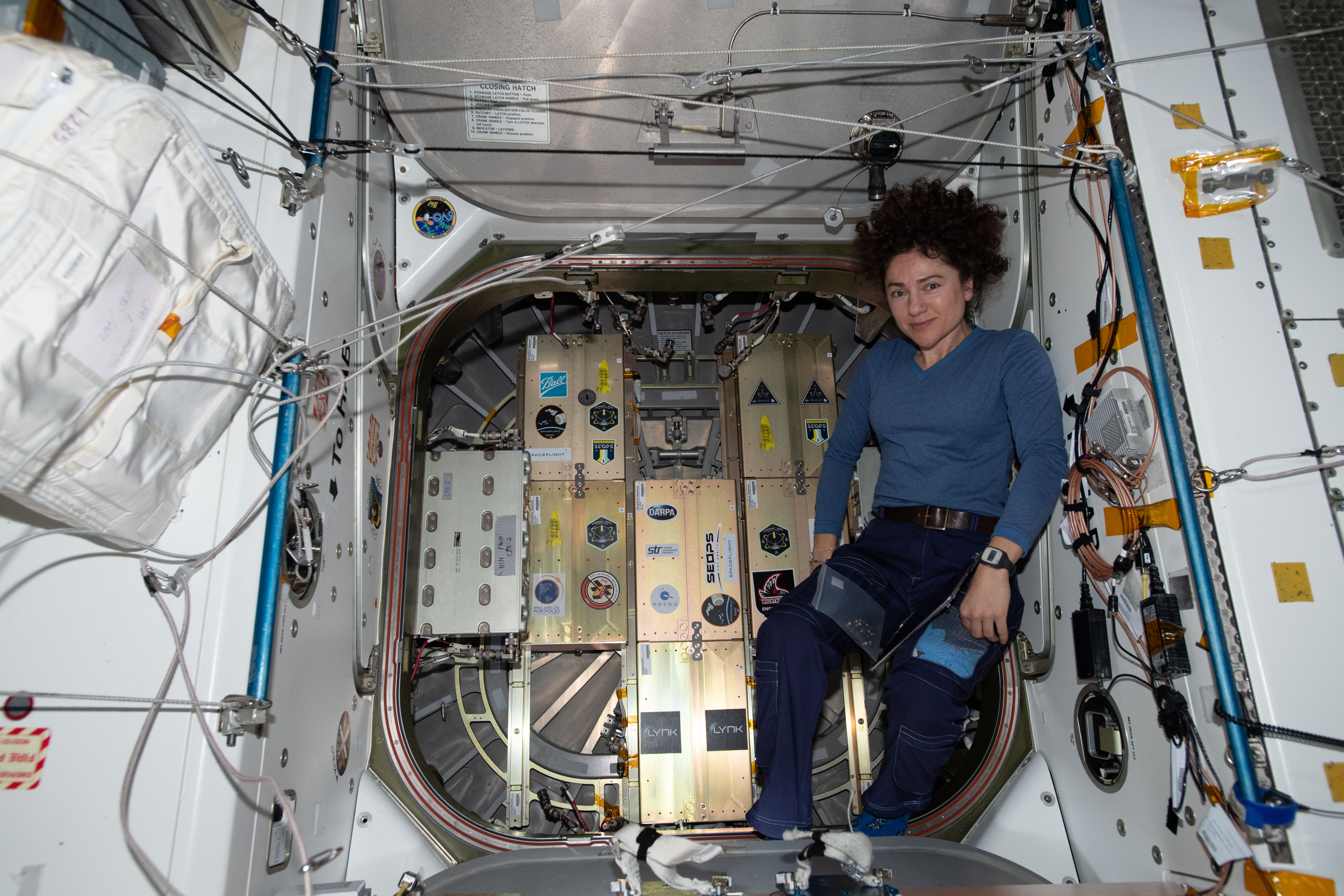 Original Caption: iss061e147761 (Jan. 30, 2020) --- NASA astronaut and Expedition 61 Flight Engineer Jessica Meir poses in front of the closed hatch of the Cygnus space freighter from Northrop Grumman. Attached to the hatch is the SlingShot small satellite deployer loaded with eight CubeSats that were deployed into Earth orbit for communications and atmospheric research several hours after Cygnus departed the orbiting lab on Jan. 31, 2019.